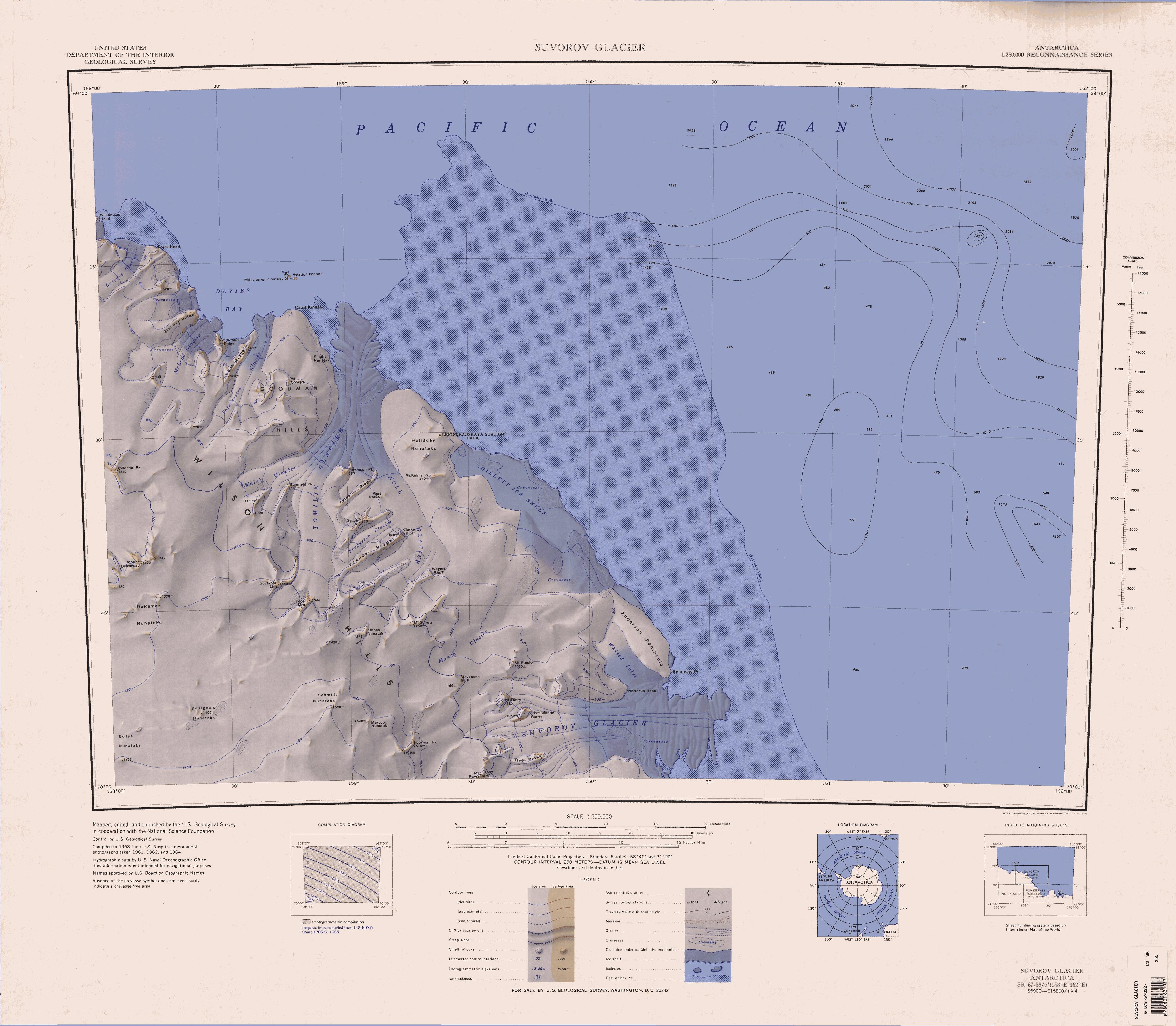 1:250,000-scale topographic reconnaissance map of the Suvorov Glacier area from 158°-162°E to 69°-70°S in Antarctica. Mapped, edited and published by the U.S. Geological Survey in cooperation with the National Science Foundation.